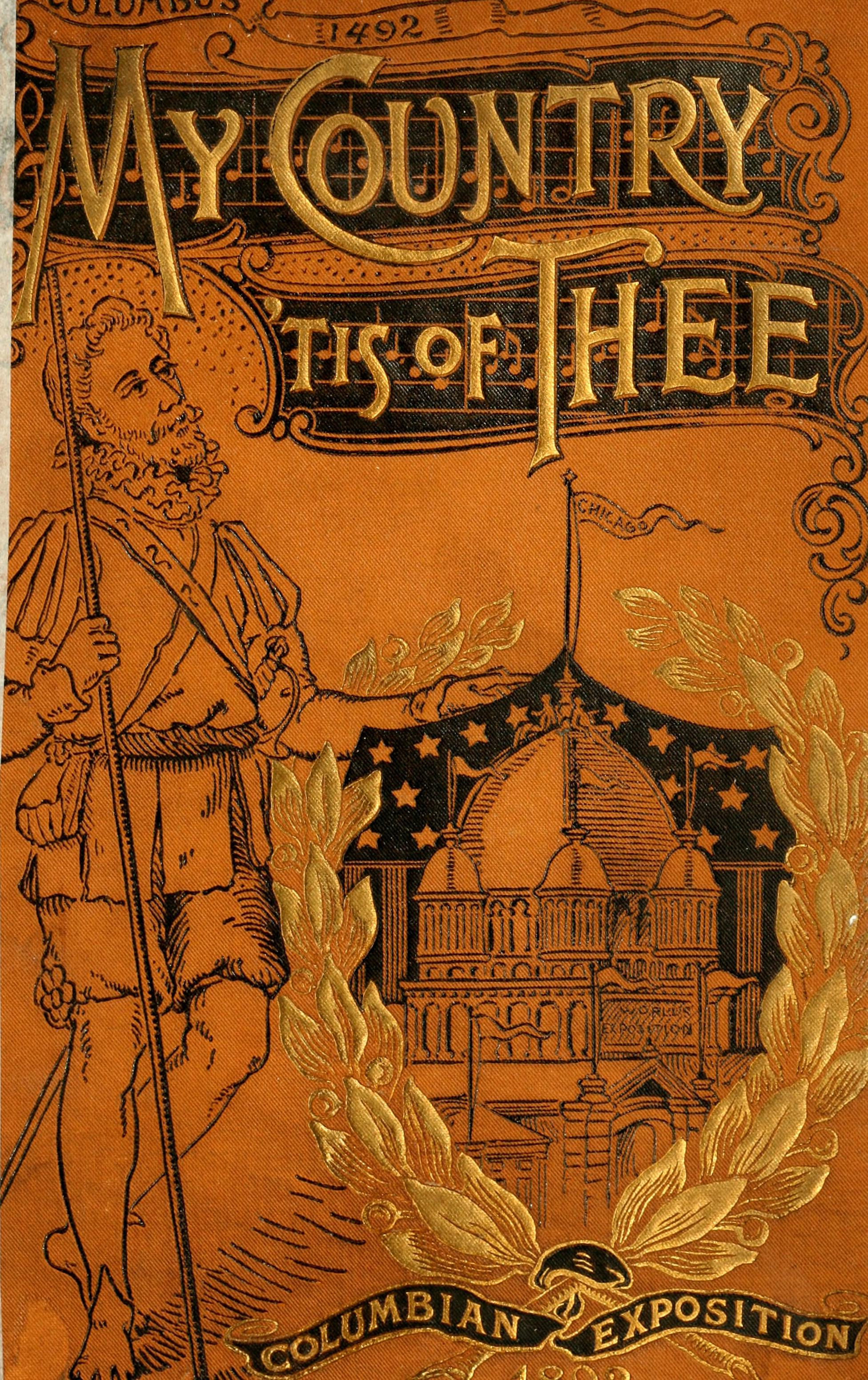 Title: "My country, 'tis of thee!" or, The United States of America; past, present and future. A philosophic view of American history and of our present status, to be seen in the Columbian exhibition Year: 1892 (1890s) Authors: Johnson, Willis Fletcher, 1857-1931 Habberton, John, 1842-1921 Subjects: Publisher: Philadelphia, J. Y. Huber co. Text Appearing Before Image: th his hat. Make him self-respecting,self-reliant and responsible. Let him lean on theState for nothing that nis own arm can do, andon the government fornotliing that his State cando. Let him cultivate independence to tlie pointof sacrifice, and learn that humble things withunbartered liberty are better than splendorsbought with it;; price. Let him neither sur-render his individuality to government nor mergeit with the mob. Let him stand upright andfearless—a freeman bc/n of freemen—sturdy inhis own strength—dowering his family in thesweat of his brow—loving to his State—lo3^al tohis Republic—earnest in his allegiance whereverit rests, but building his altar in the midst of oiR (;Ri:Ar coxci-.kx, 611 his household gods and sliriniiig in his ownheart the utteniiost temple of its libert3^ On all this, and the general subject of thisbook, the editor begs to quote, in conclusion, froma well-known and highly respected authority. Men and brethren, think on these things. C 310 88 Text Appearing After Image: .w iO ►!,^ ^ .^ 4 «■